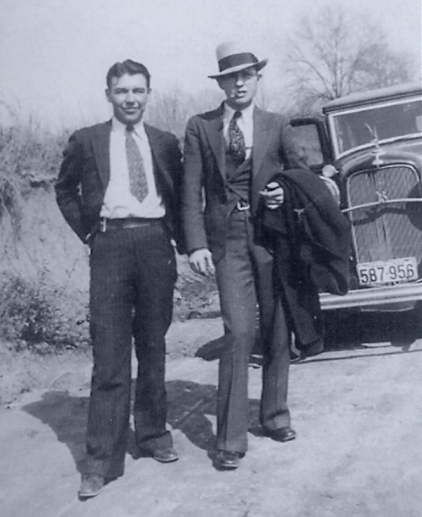 W.D. Jones and Clyde Barrow, from FBI Barrow file